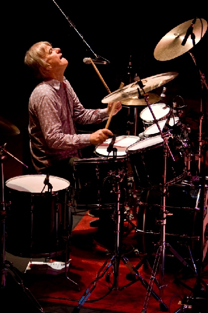 Jim McCarty Yardbirds Basingstoke 2008 By Marc Lacaze Photographe